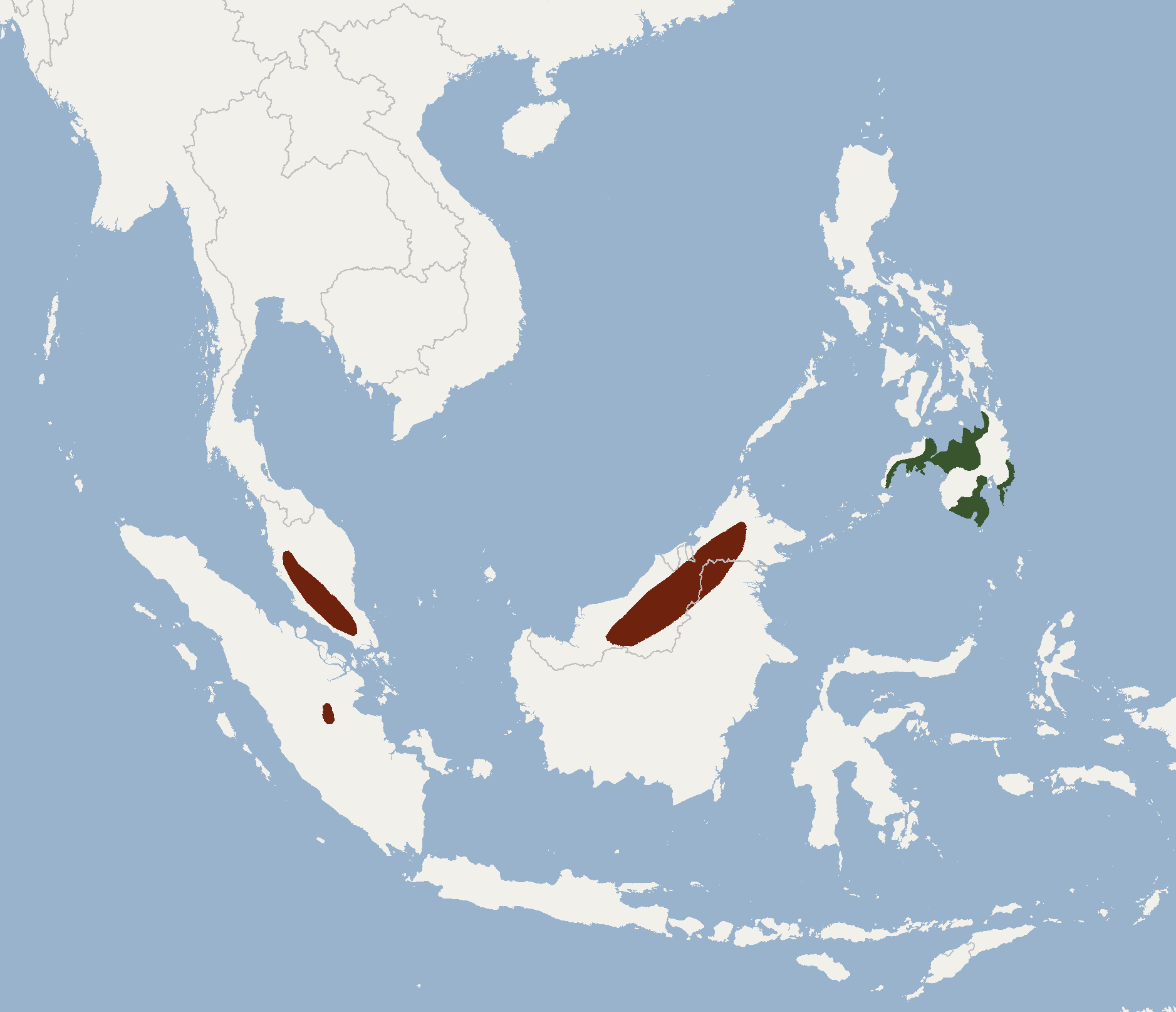 According to . Subspecies range: M.w.wetmorei in brown, M.w.albicollis in green. M.w.wetmorei M.w.albicollis